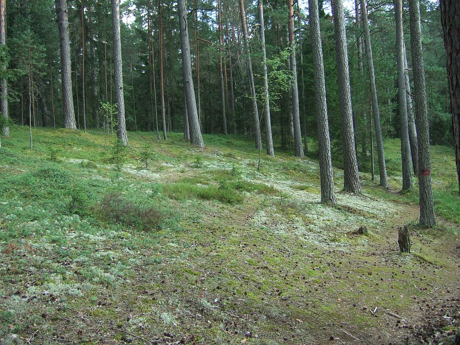 Grazute forest (Lithuania)